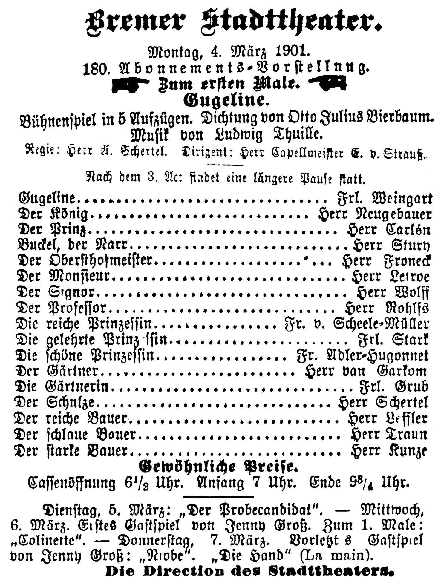 Ludwig Thuille - Gugeline - play bill of the first performance - Bremen 1901